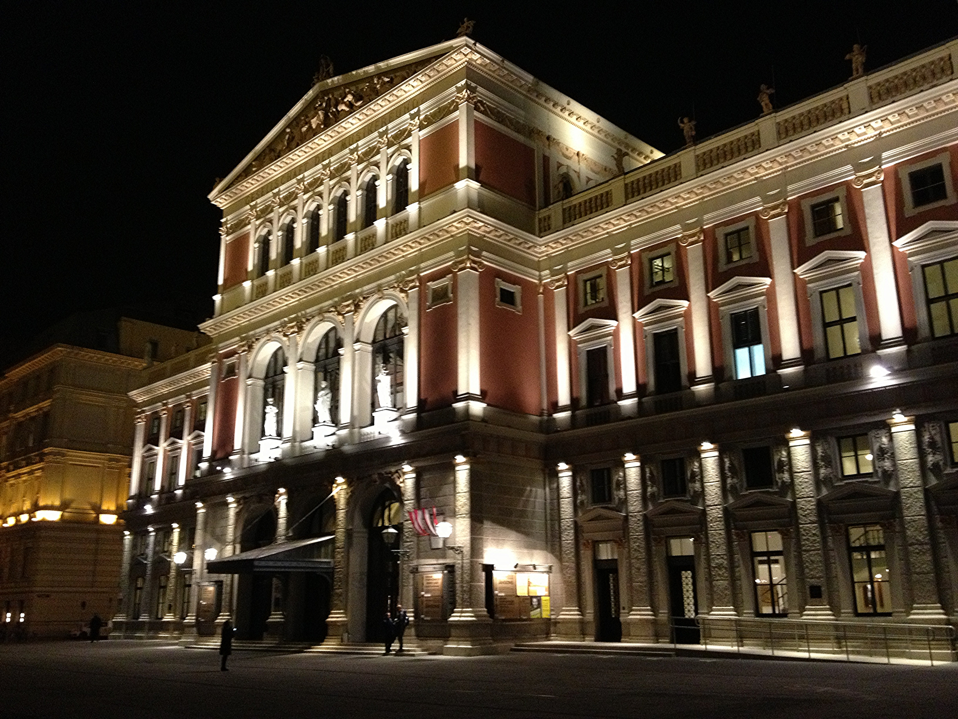 The Wiener Musikverein, commonly shortened to Musikverein, is a concert hall in the Innere Stadt borough of Vienna, Austria. It is the home to the Vienna Philharmonic orchestra. The "Great Hall" (Großer Saal) due to its highly regarded acoustics is considered one of the finest concert halls in the world, along with Berlin's Konzerthaus, the Concertgebouw in Amsterdam, Boston's Symphony Hall, and the Teatro Colón in Buenos Aires. None of these halls were built in the modern era with the application of acoustics science, and, with the partial exception of the horseshoe-shaped Colón, all share a long, tall, and narrow shoebox shape.